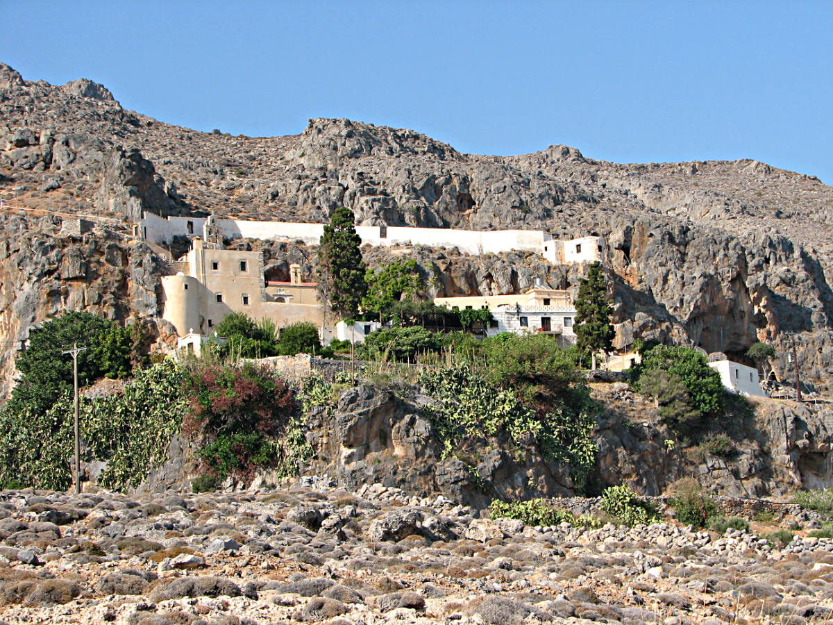 Overview of Kapsa Monastery, Crete.